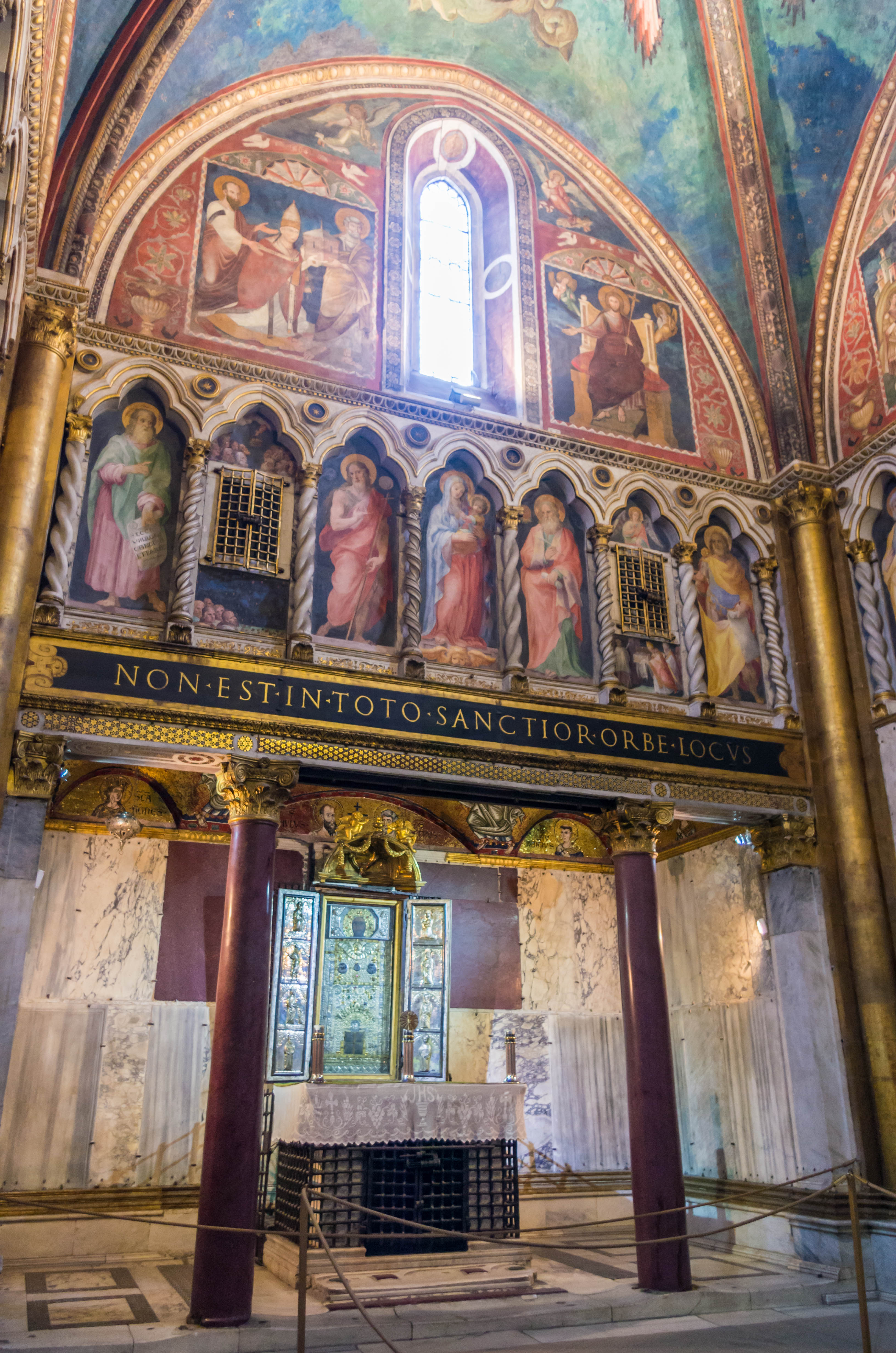 Sancta Sanctorum (Rome)